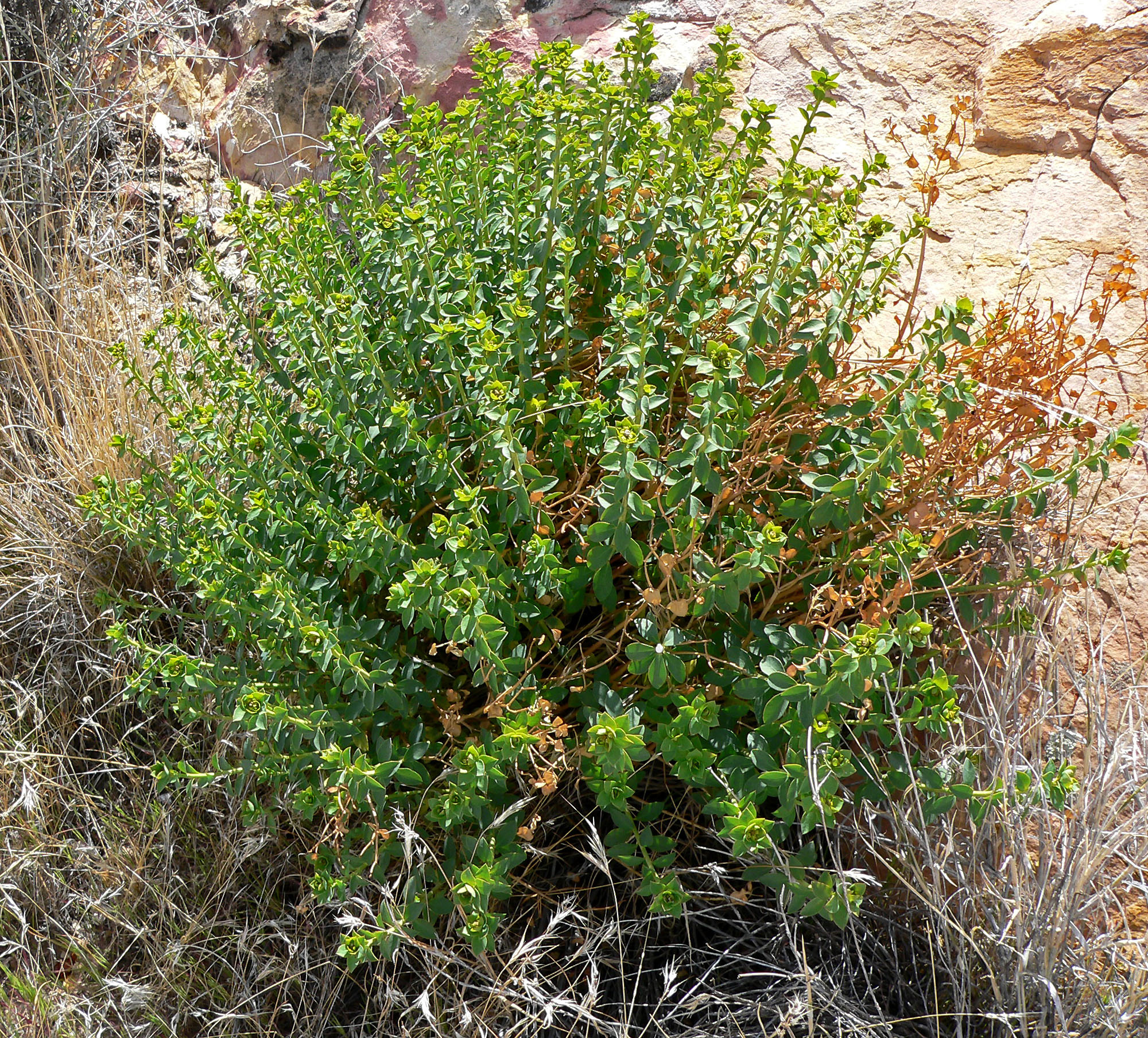 Euphorbia schizoloba in the Buffington Pockets area, Valley of Fire, southern Nevada